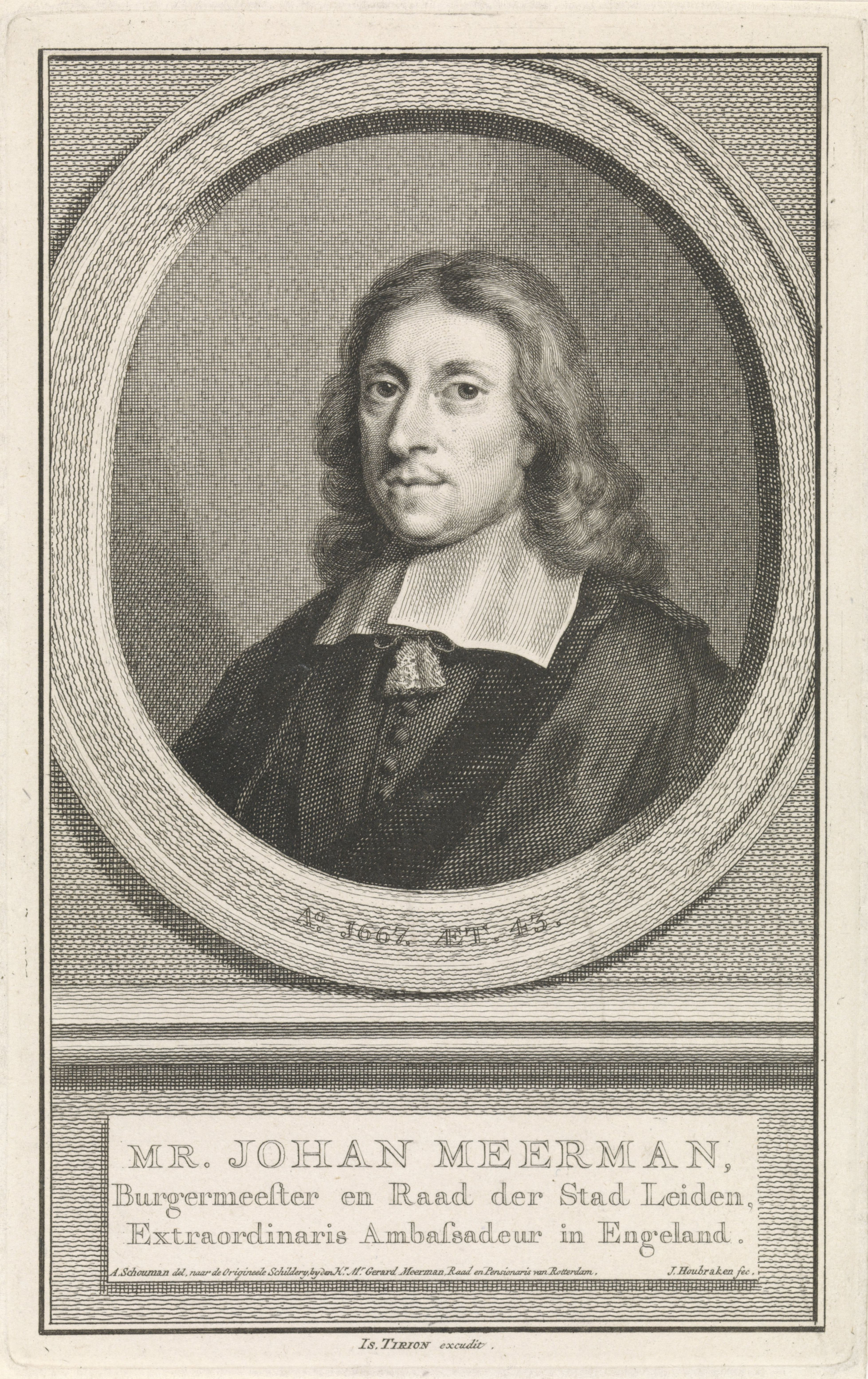 Engraving of Leiden Mayor Johan Meerman in 1667. It is based on an anonymous painting of him where he is portrayed at age 43 in 1667, after a painting which was hanging in his son Gerard Meerman's house in Rotterdam in 1760. This engraving appeared in a monthly magazine (total number of issues 45) published by Isaac Tirion with historic sketches of Holland in 1760, called 'Hedendaagse Historie'.